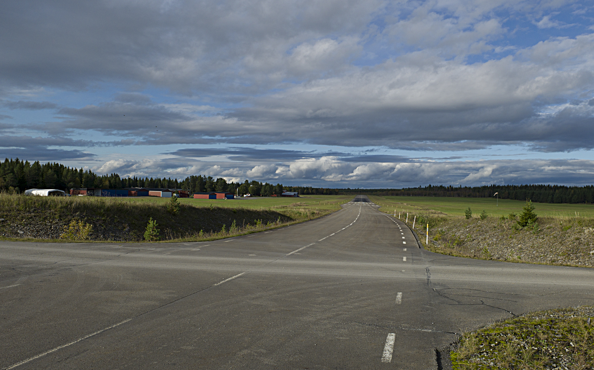 Optand wartime airbase (disused)